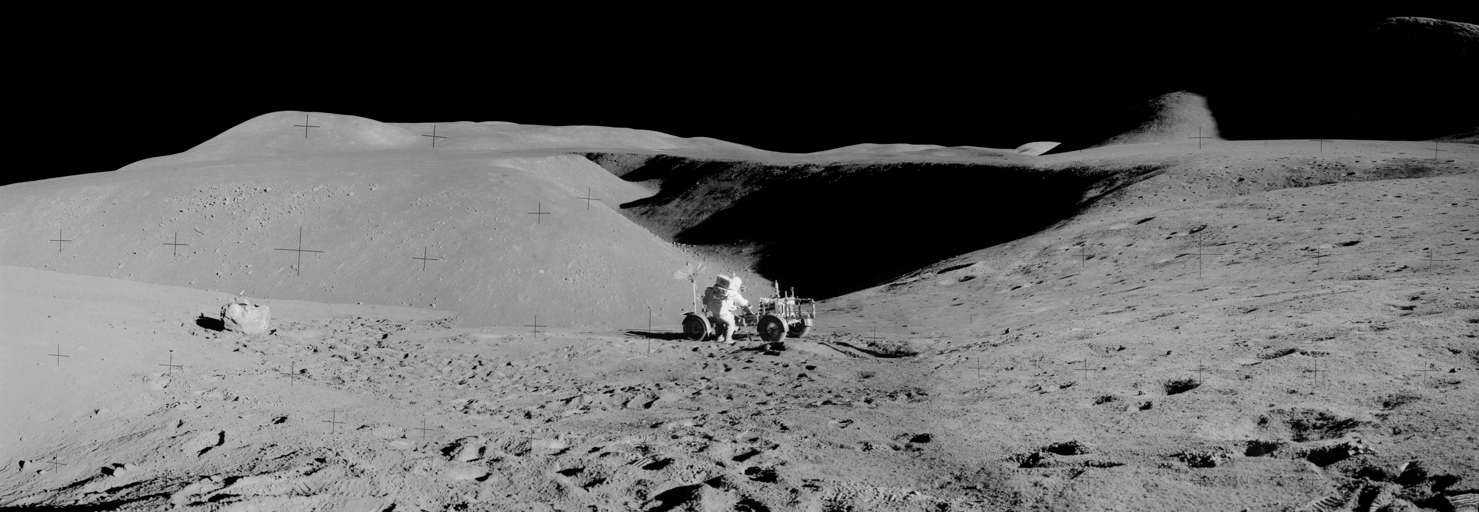 Apollo 15 EVA1 Station 2. . Background : Elbow Crater and Hadley Rill images as15-85-11448 thru as15-85-11453